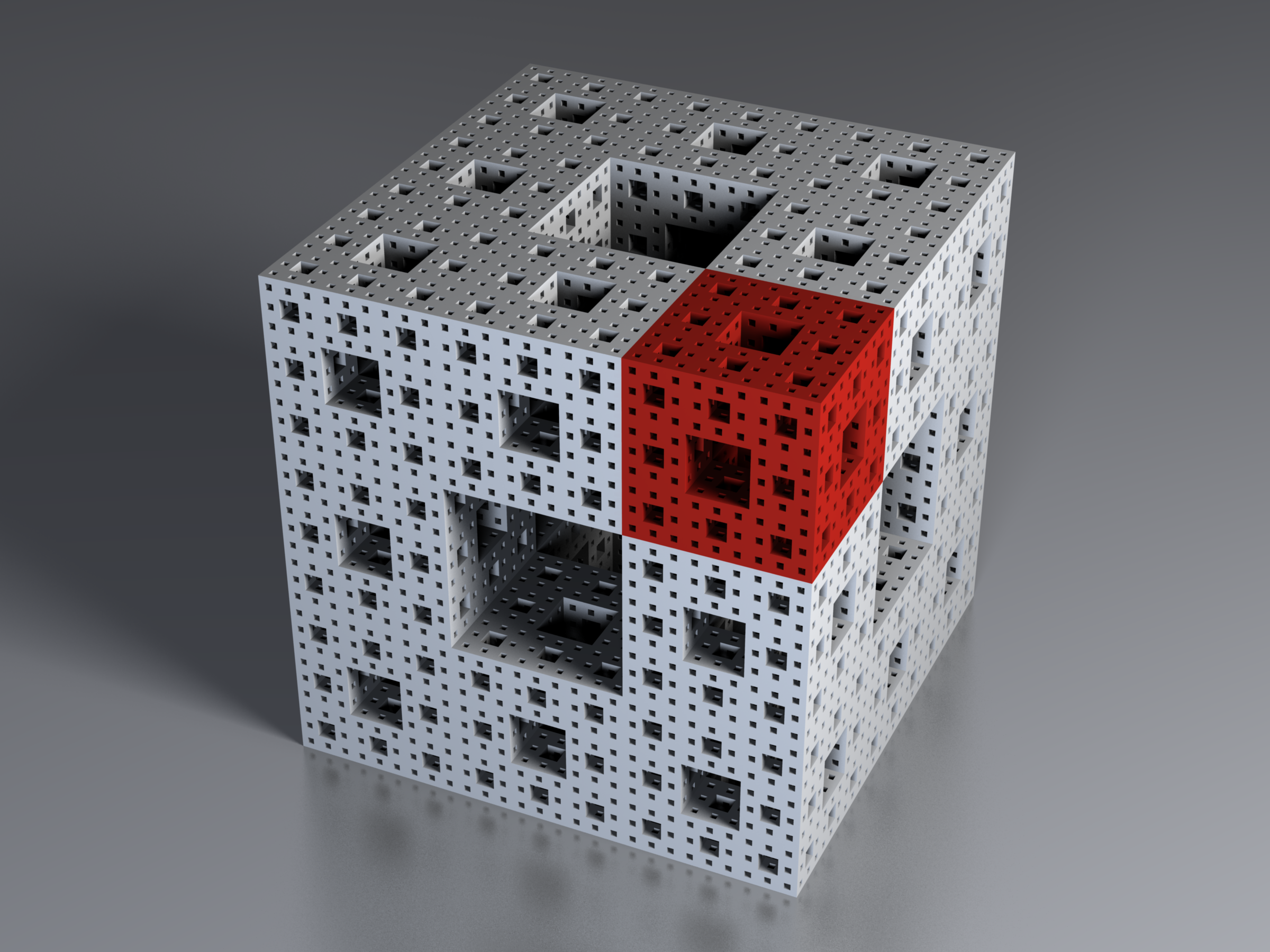 Menger Sponge after four iterations.